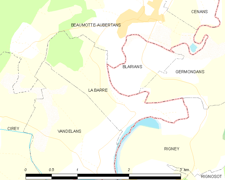 Map of French municipality